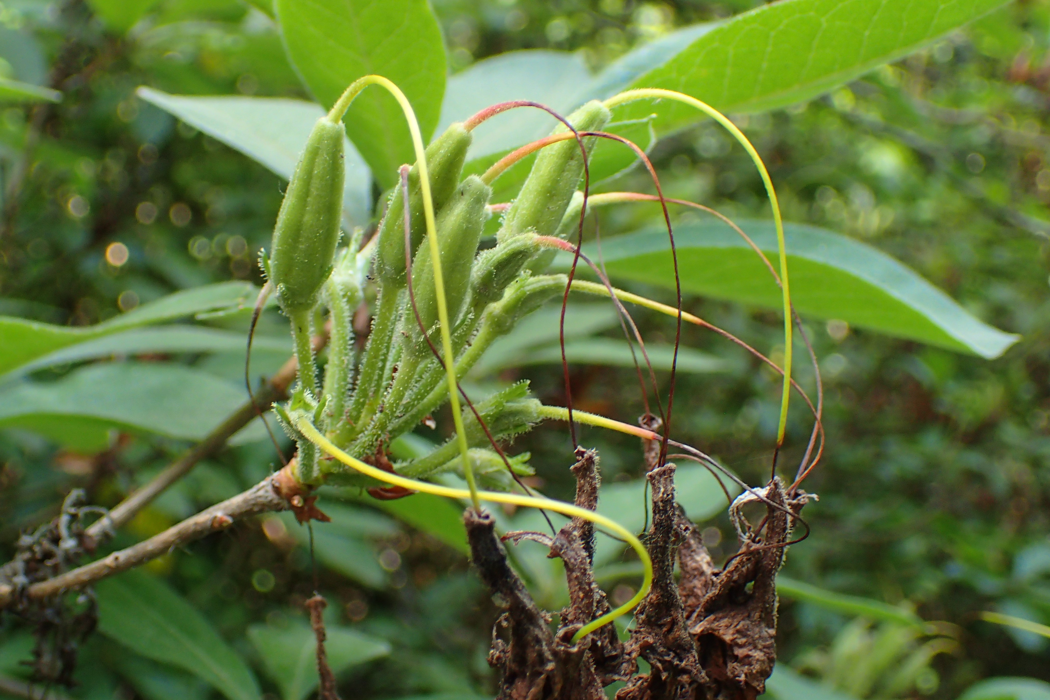 Rhododendron luteum in PAN Botanical Garden in Warsaw